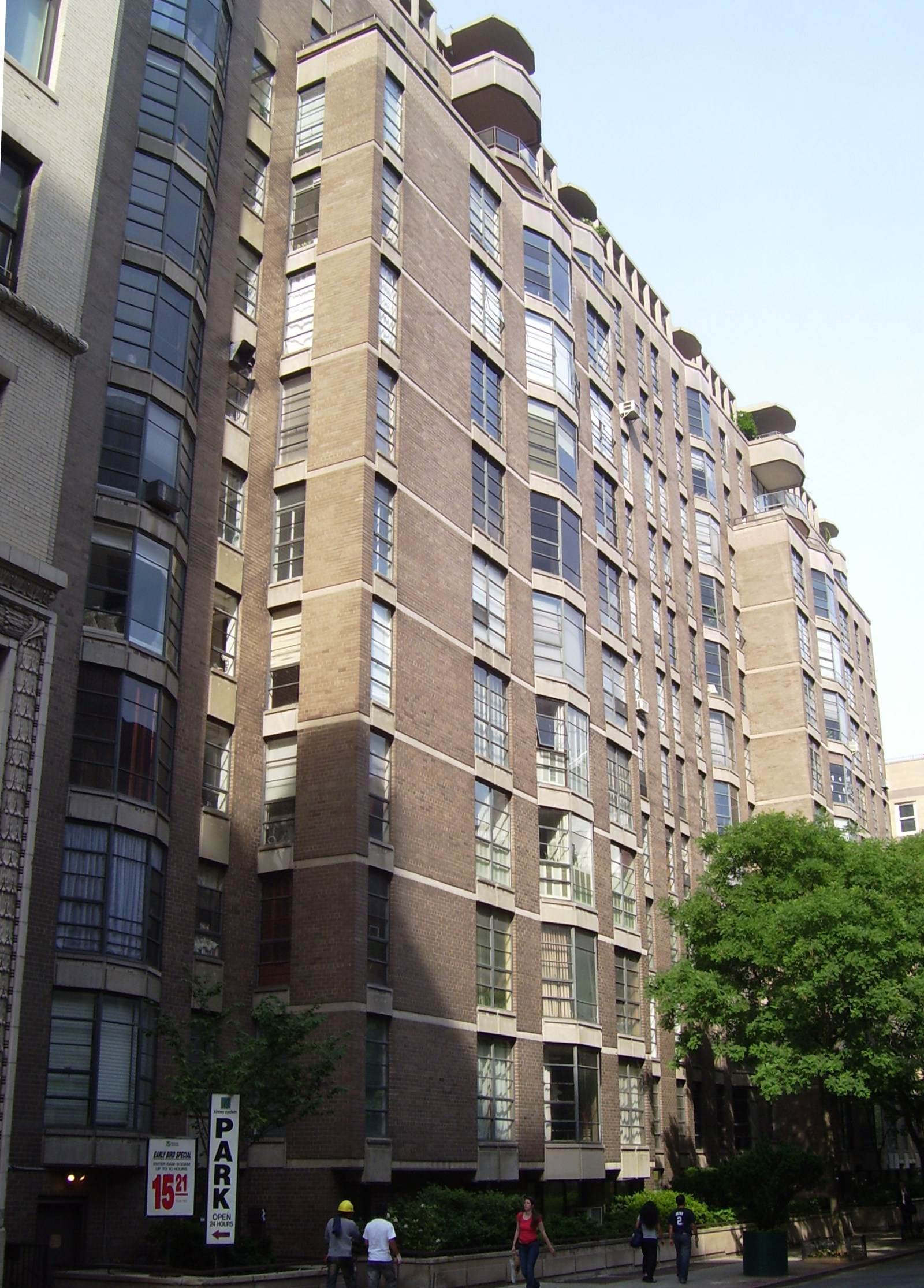 The Butterfield House apartment building, at 37 West 12th Street and 20 West 13th Street between Fifth and Sixth Avenues in the Greenwich Village neighborhood of Manhattan, New York City, was built in 1962 and was designed in 1959 by with William J. Conklin (associate in charge of design) and James R. Rossant of Mayer, Whittlesey & Glass. The building is 7 stories on 12th Street, but rises to 13 stories on 13th Street, where the surrounding buildings are taller. The AIA Guide to NYC calls it "The friendly neighborhood high rise", and the NYC Landmarks Preservation Commission cites it as an example of "urban harmony" between modern architecture and older forms. It is located within the Greenwich Village Historic District. (Source: AIA Guide to NYC (4th ed.) and "NYCLPC Greenwich Village Historic District Designation Report, volume 1")